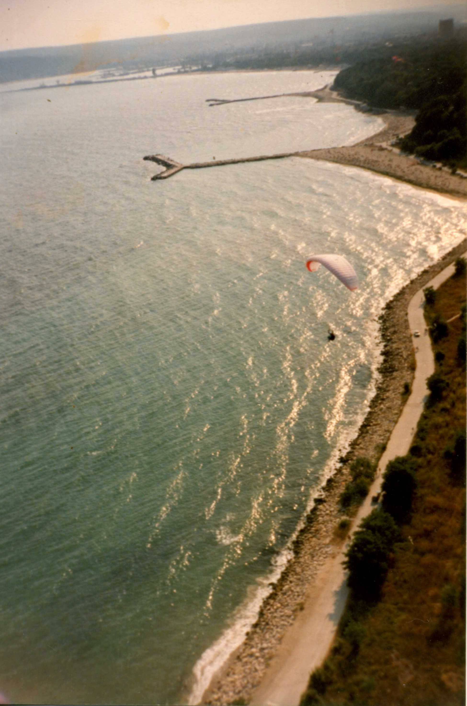 Varna, Second Buna